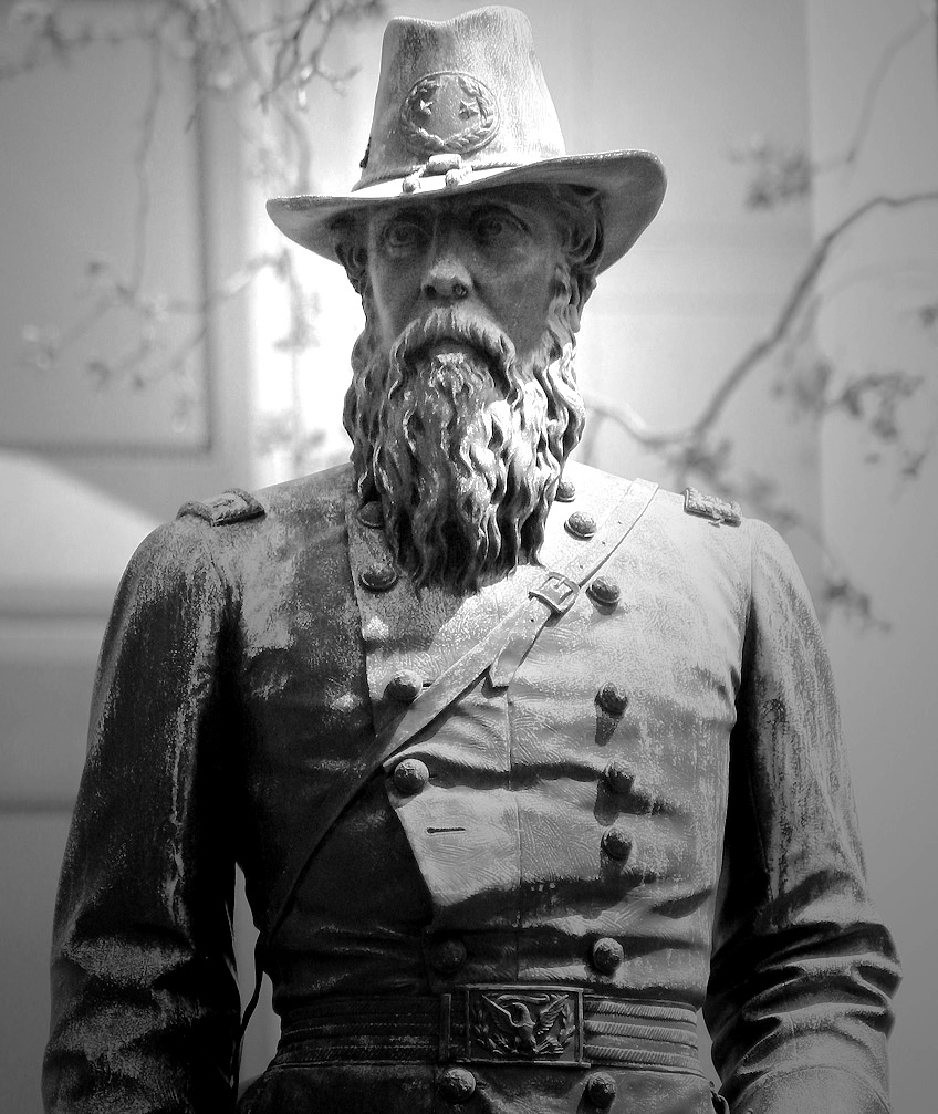 The General John Aaron Rawlins statue located at Rawlins Park in the Foggy Bottom neighborhood of Washington, D.C. It was sculpted in 1874 by Joseph A. Bailly.